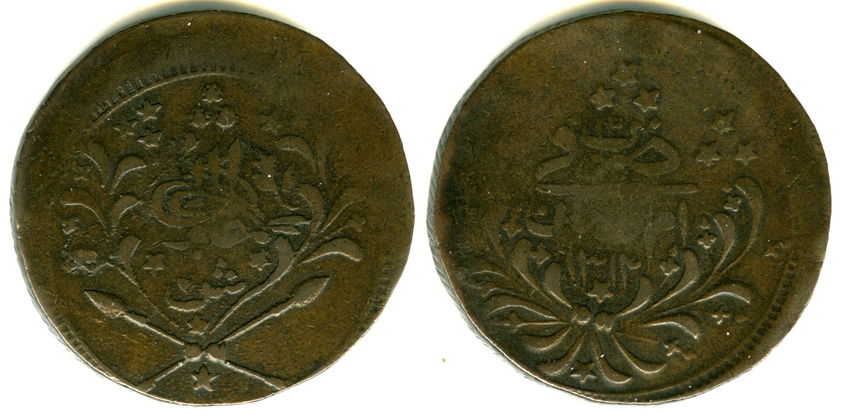 A coin of the Mahdiyah State in Sudan, more specifically a 20 qurush (piastres) (type KM# 26) minted during the reign of Abdullah ibn Mohammed (1885-1898).